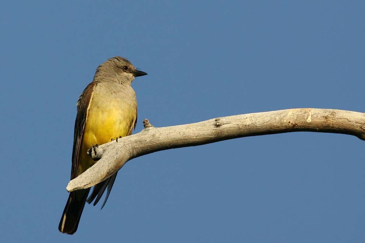 Cassin's Kingbird